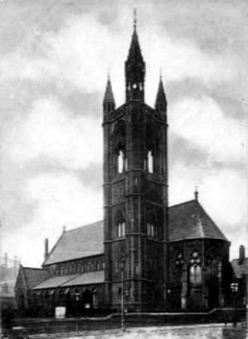 Postcard of the former Church of St Clement, Chapeltown Road, Sheepscar, Leeds, West Yorkshire, England. It was designed by George Corson, and opened in 1868. It was demolished in 1976.